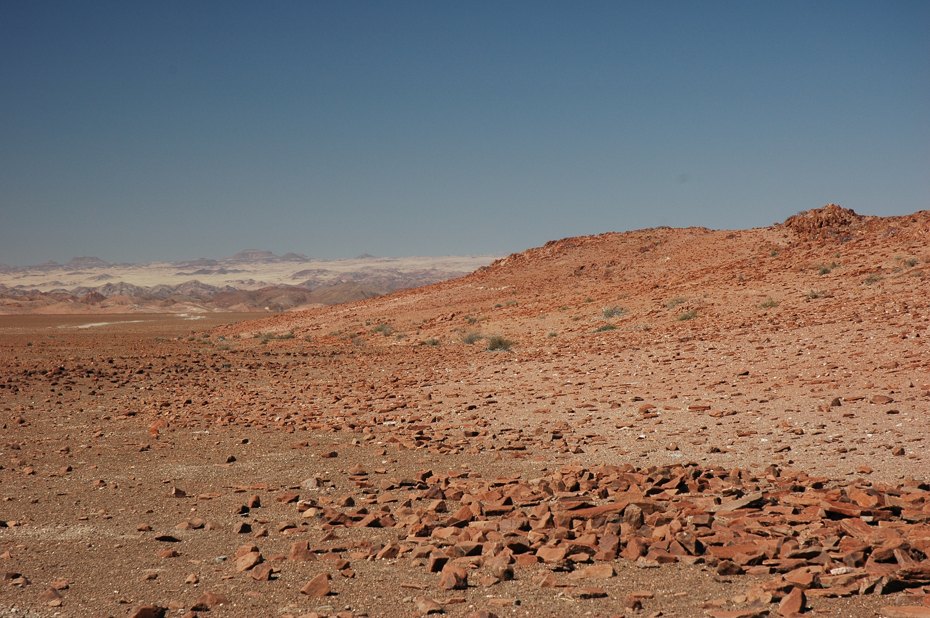 Kaokoland, Namibië Photographie prise par GIRAUD Patrick